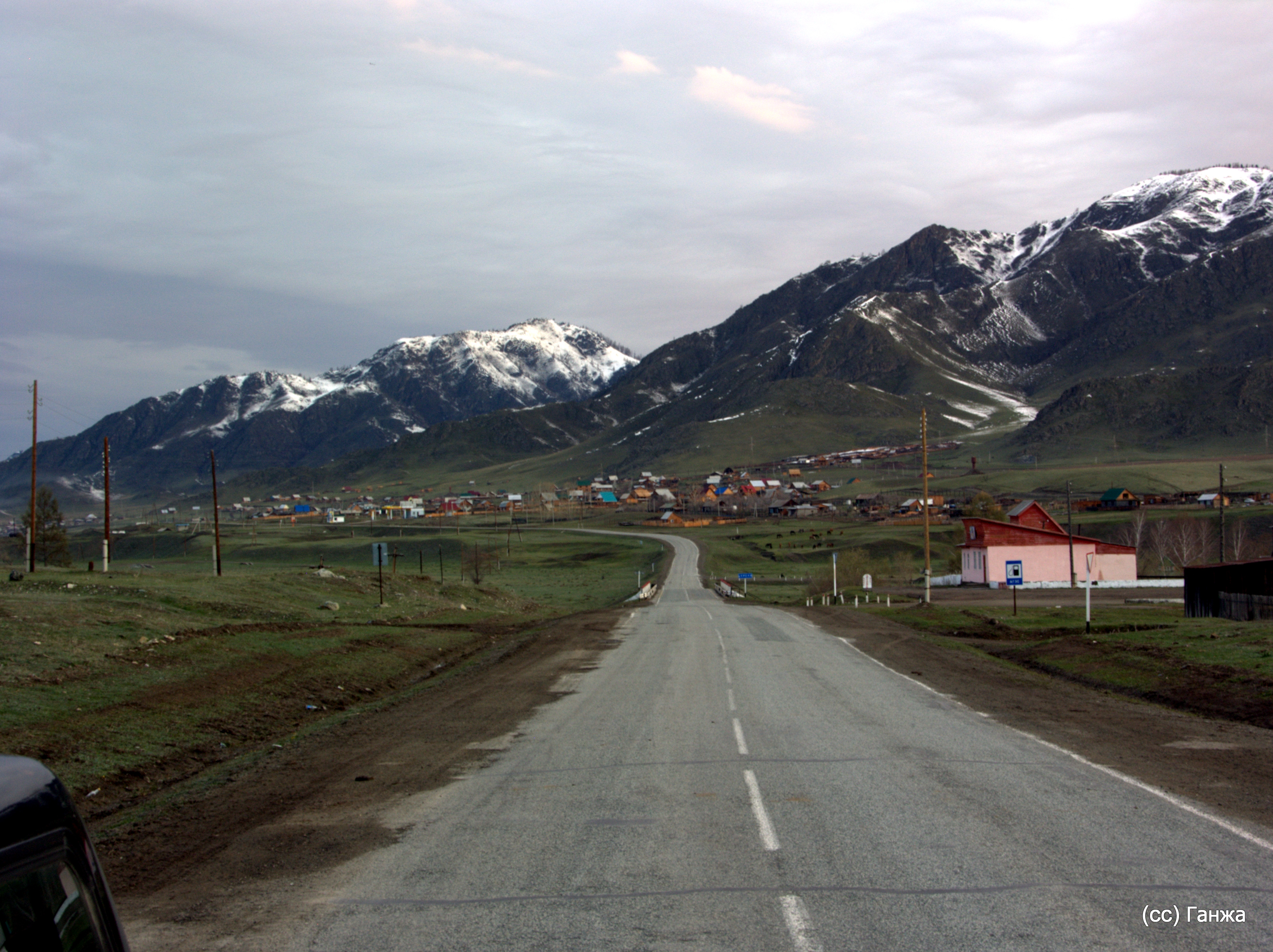 Onguday. Highway M52 Chuiskiy Trakt.